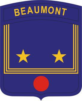 Shoulder sleeve insignia of the Beaumont High School (St. Louis, Missouri) JROTC program